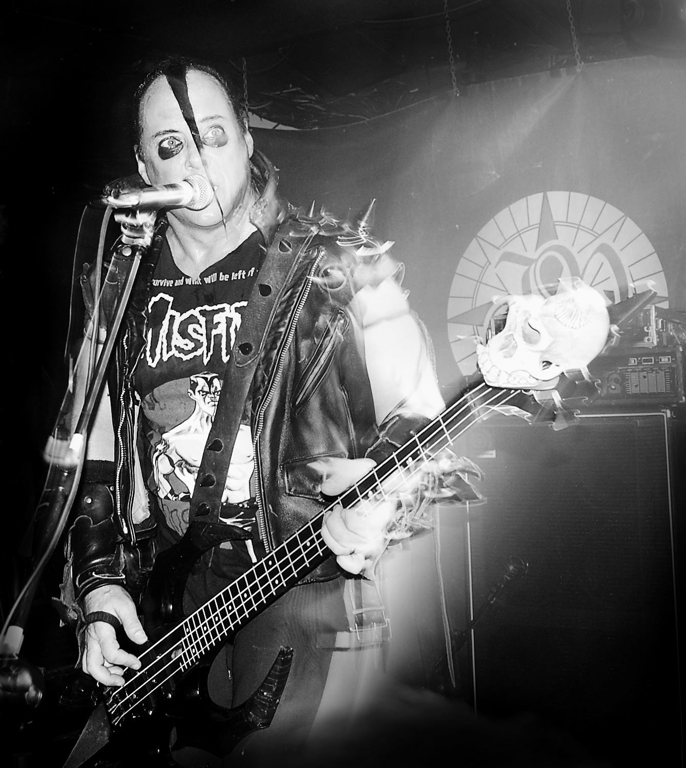 Jerry Only performing with the Misfits in Sala Copernico, Madrid, on April 23, 2008.